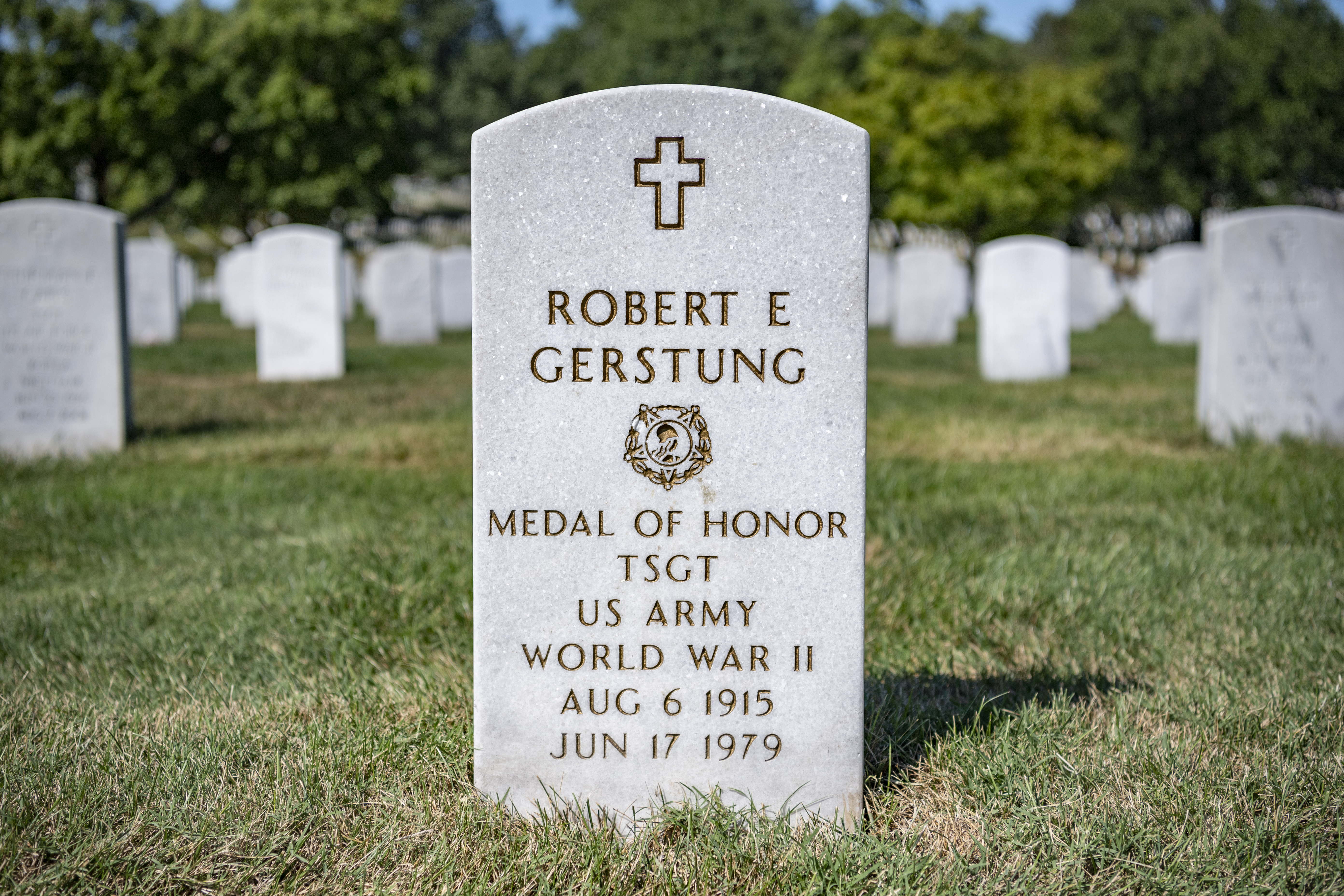 Headstone of U.S. Army Tech. Sgt. Robert Gerstung, Medal of Honor Recipient, in Section 66 of Arlington National Cemetery, Arlington, Virginia, Aug. 30, 2019. (U.S. Army photo by Elizabeth Fraser / Arlington National Cemetery / released)